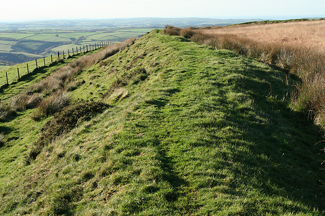 High Bray: Shoulsbury Castle On the southern rampart looking west-north-west towards the coast. Dartmoor, Bideford Bay, Lundy and the South Wales coast can all be seen from this location. And Bodmin Moor too, on clear days. Shoulsbury Castle stands on private ground on the western edge of Exmoor. But access gates for pedestrians have been provided. It is uncertain whether this is an Iron Age enclosure. It covers 1.6 hectares